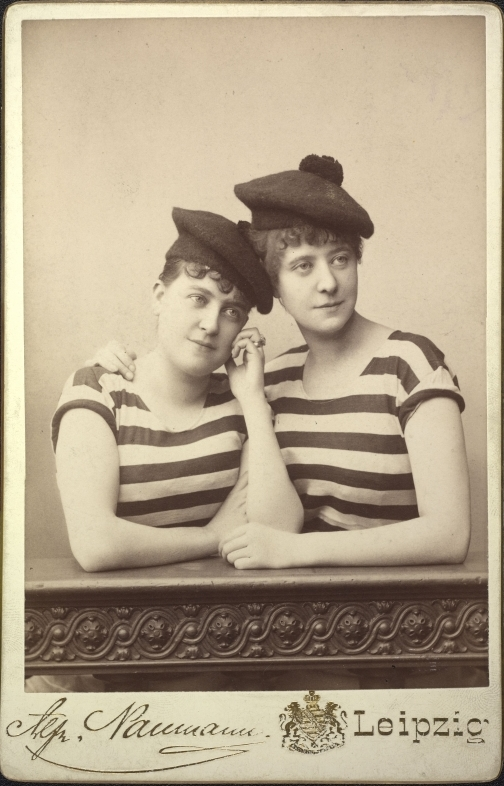 Actresses Adele Sandrock (1863-1937) and Wilhelmine Sandrock (1861-1948), photograph by Atelier Naumann, Leipzig, 1885